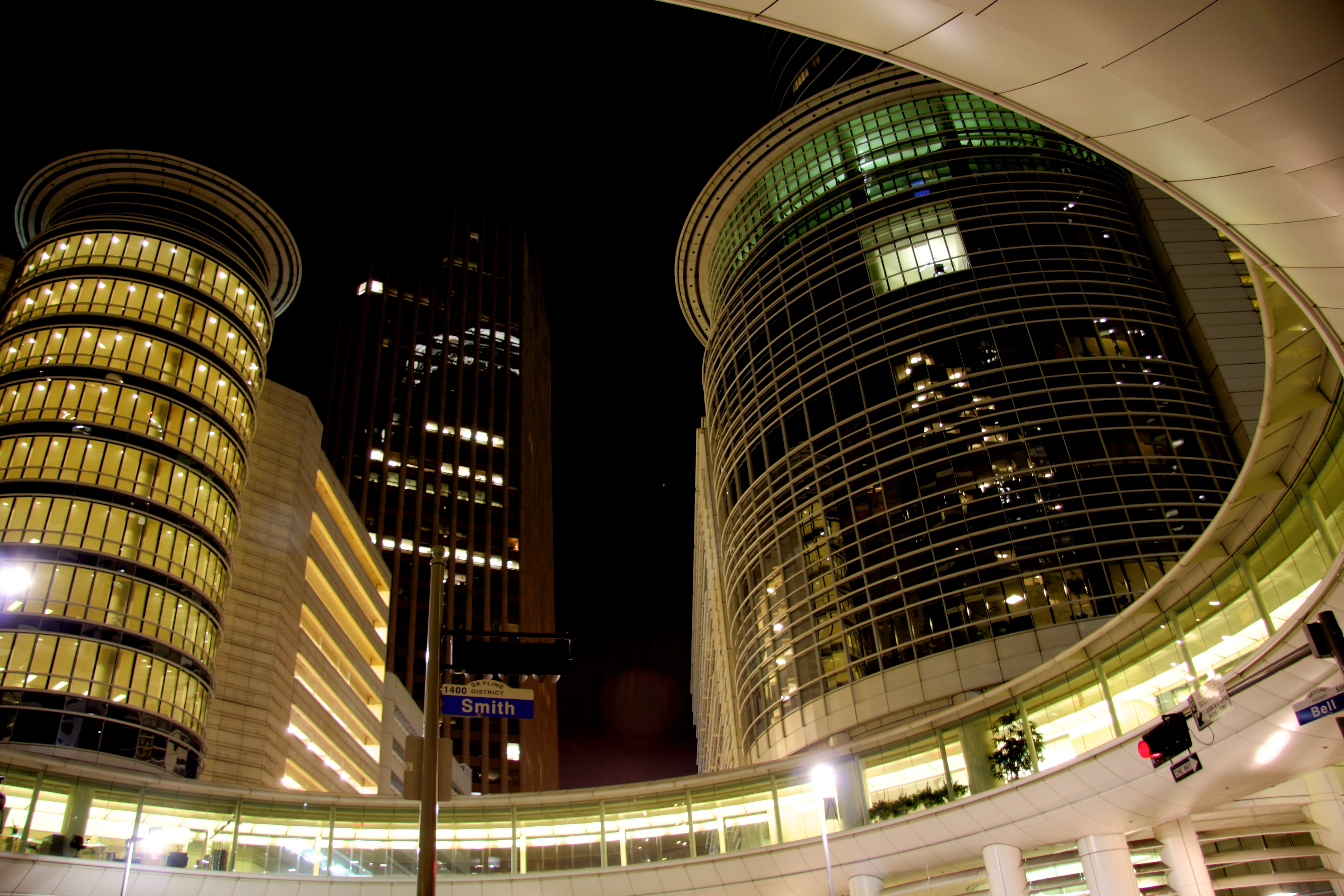 Enron Complex in Houston Texas